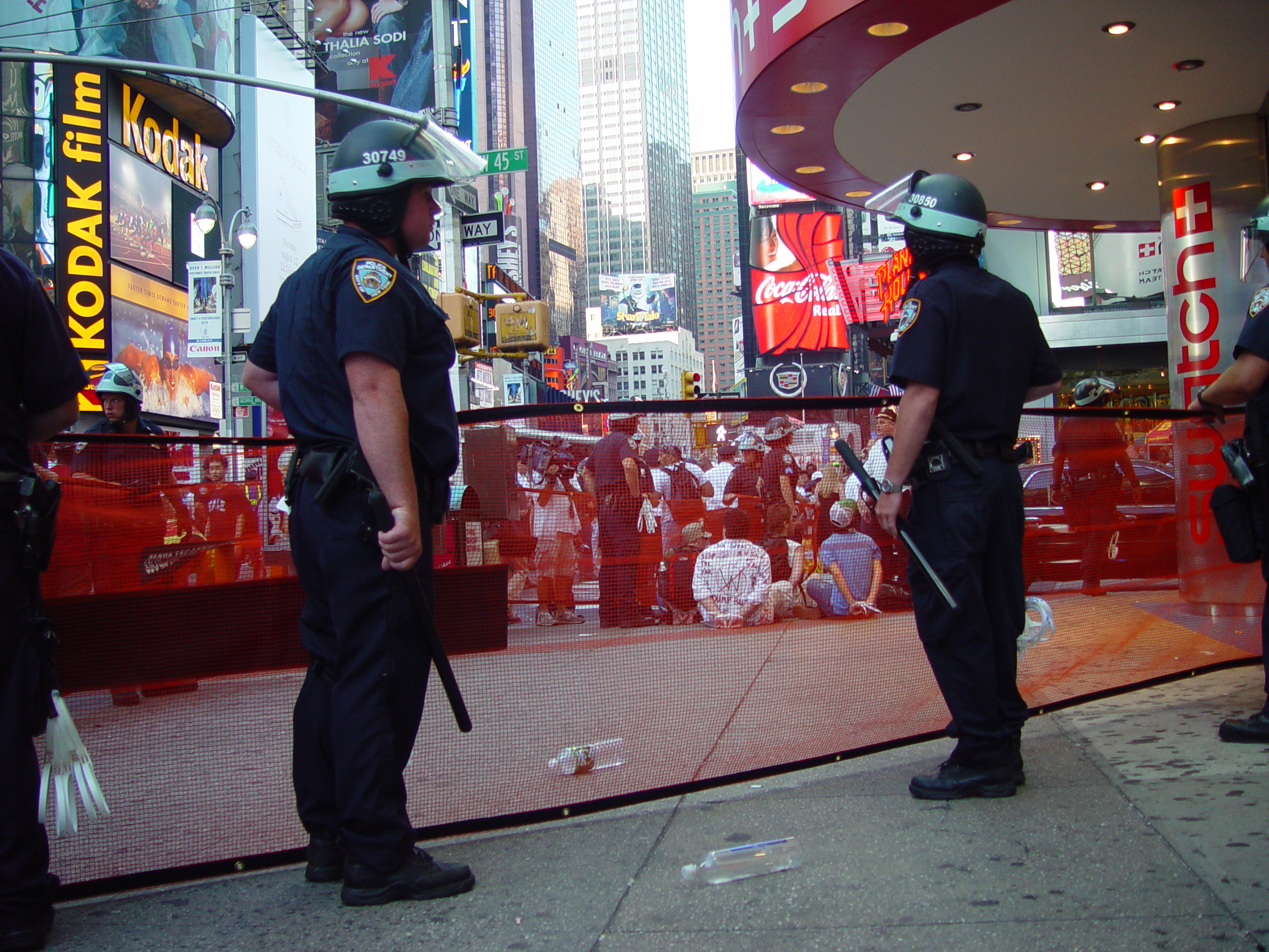 Protest of the Republican National Convention, New York City.